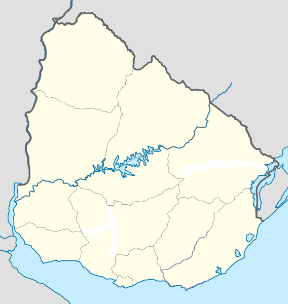 1837 map of the Oriental Republic of Uruguay. After the establishment of the new departments of Salto, Tacuarembó and Minas, the country was subdivided into twelve departments